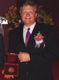 Brian Schmidt receiving the Shaw Prize for Astronomy 2006. Cropped from [1] on the English Wikipedia. The Original picture was released into the Public Domain, I likewise release any rights I have from editing it into the Public Domain.